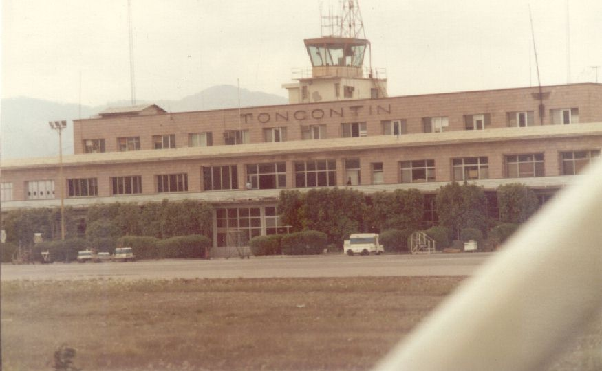 Toncontin International Airport, Tegucigalpa, Honduras, March 22, 1980.